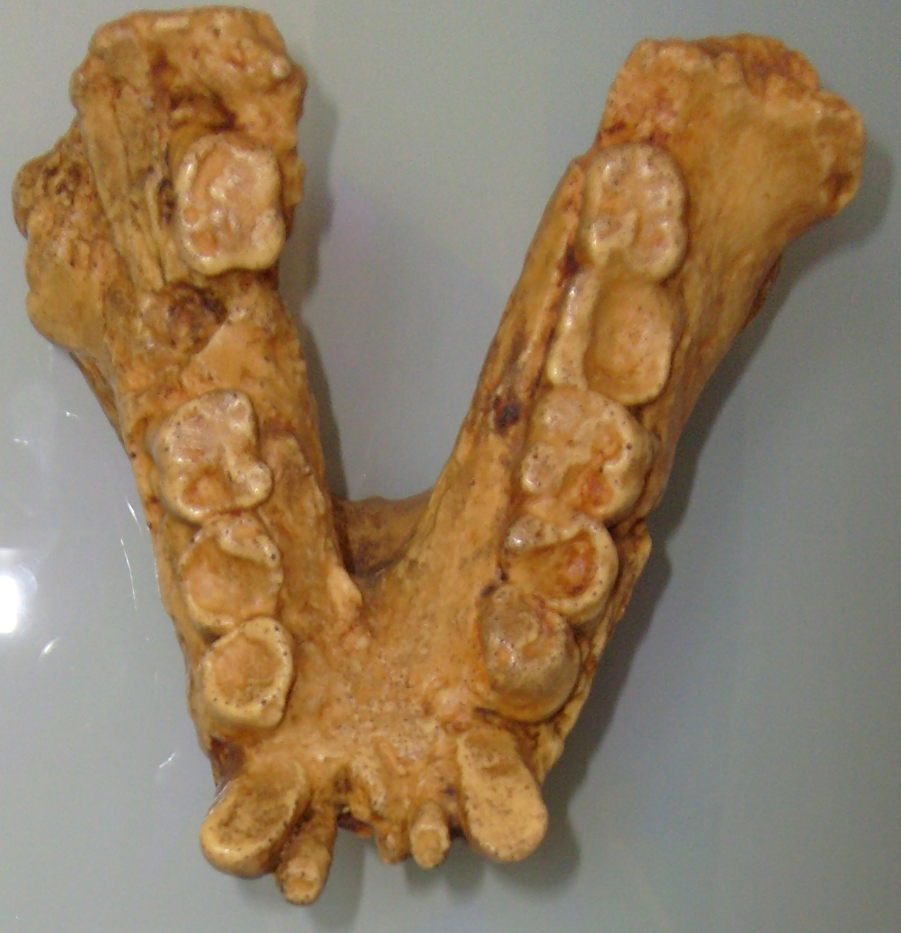 Gigantopithecus jaw cast displayed at Museum of Man, San Diego, California.